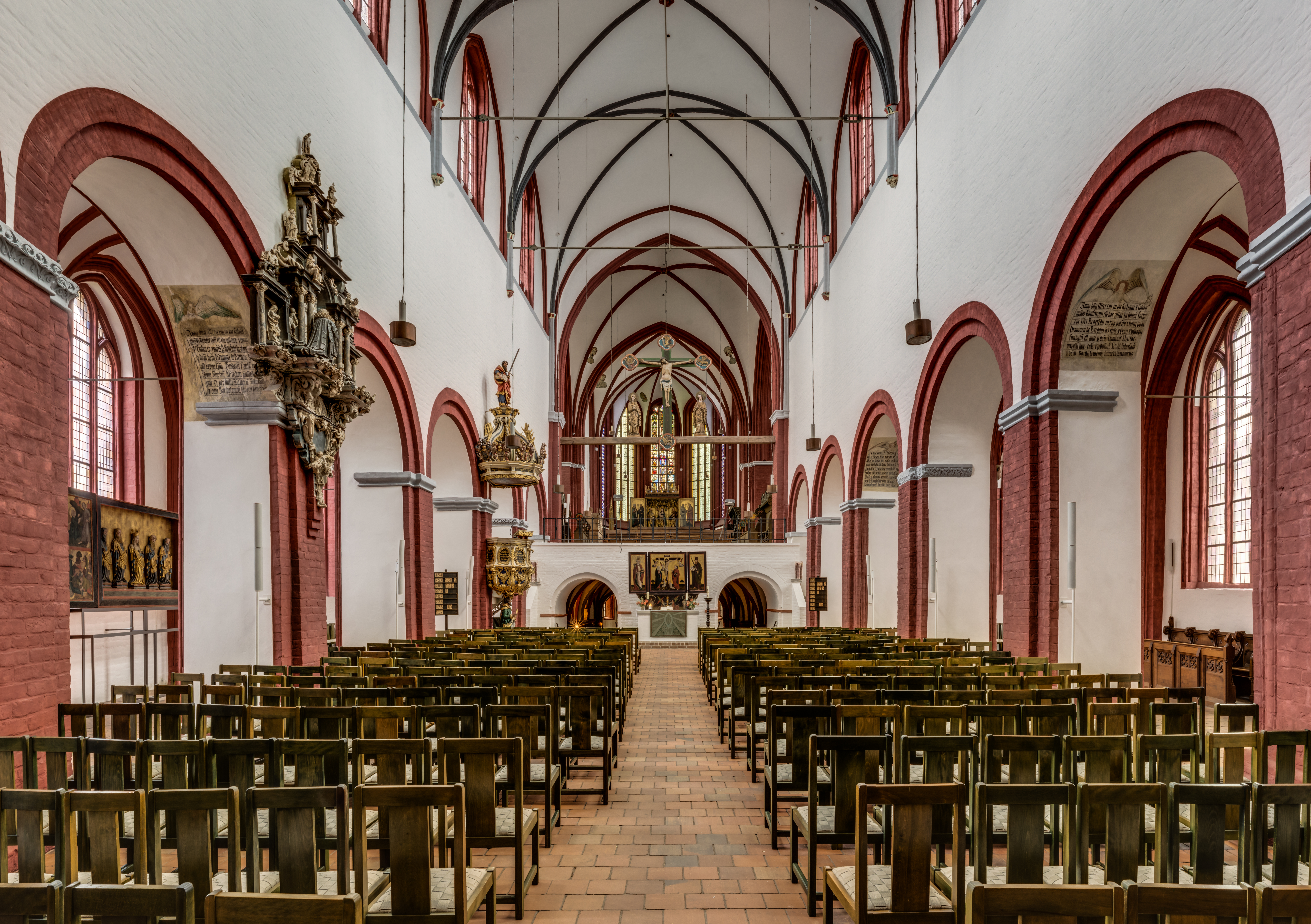 East nave of Brandenburg Cathedral St. Peter and Paul, Brandenburg an der Havel, Germany